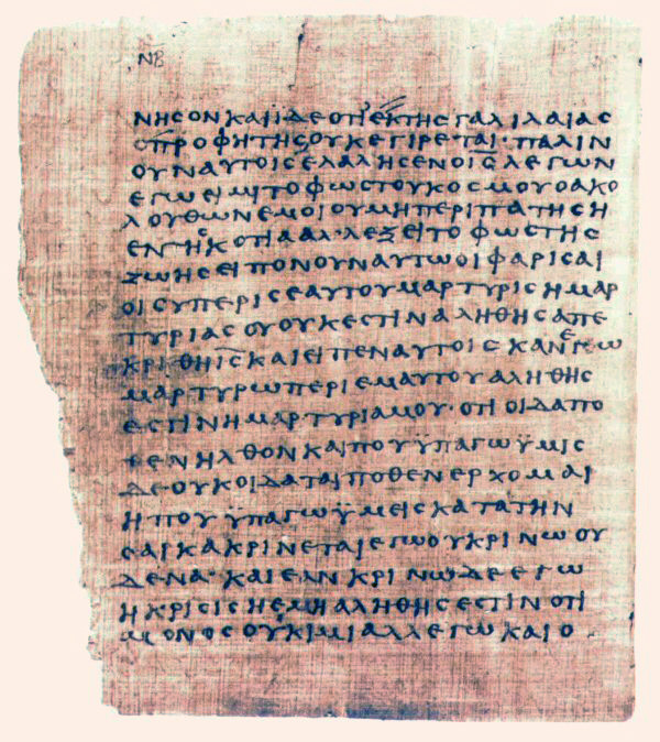 Papyrus 66 of the Bodmer Papyri